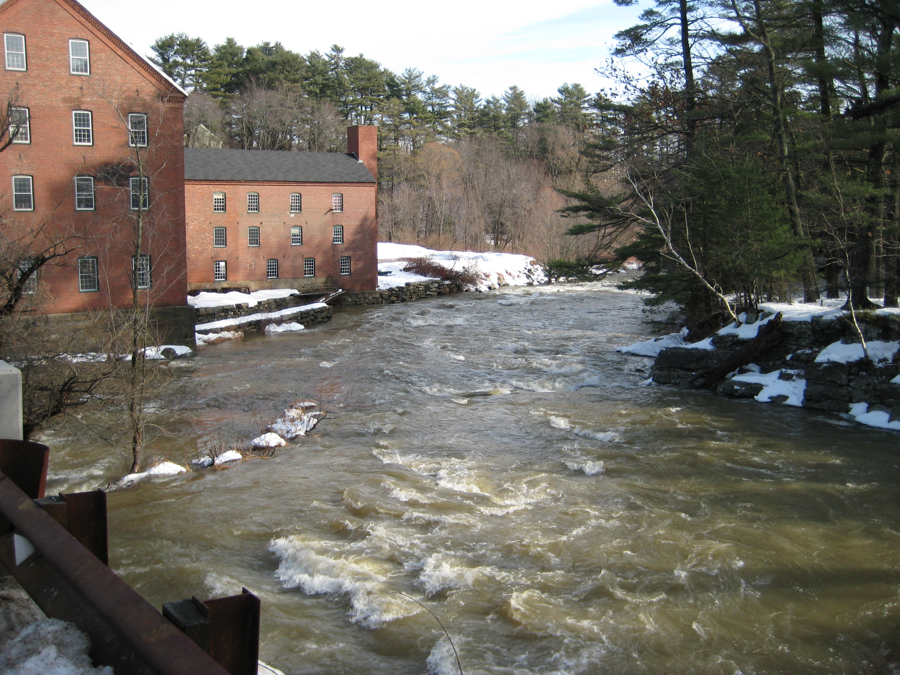 Cotton mill, Yarmouth